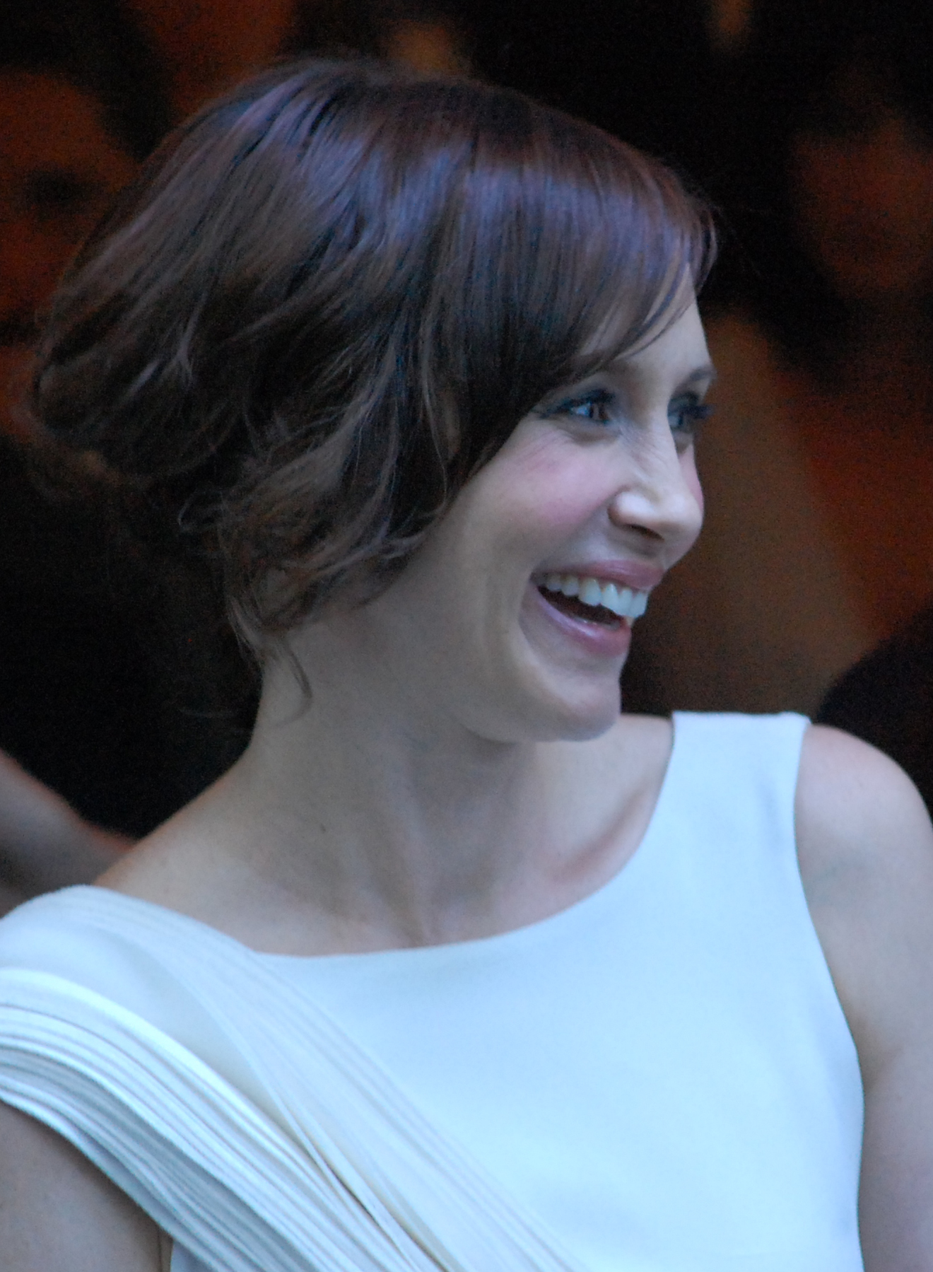 This is a cropped section of an image taken of Vera Farmiga at the Up in the Air premier at the Ryerson Theatre, September 12, 2009.